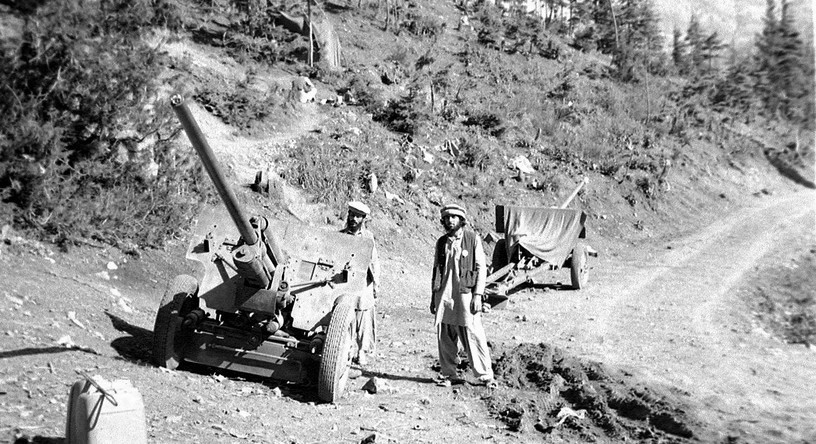 Mujahideen with two captured Soviet ZiS-2 field gun in Jaji of Paktia Province in Afghanistan